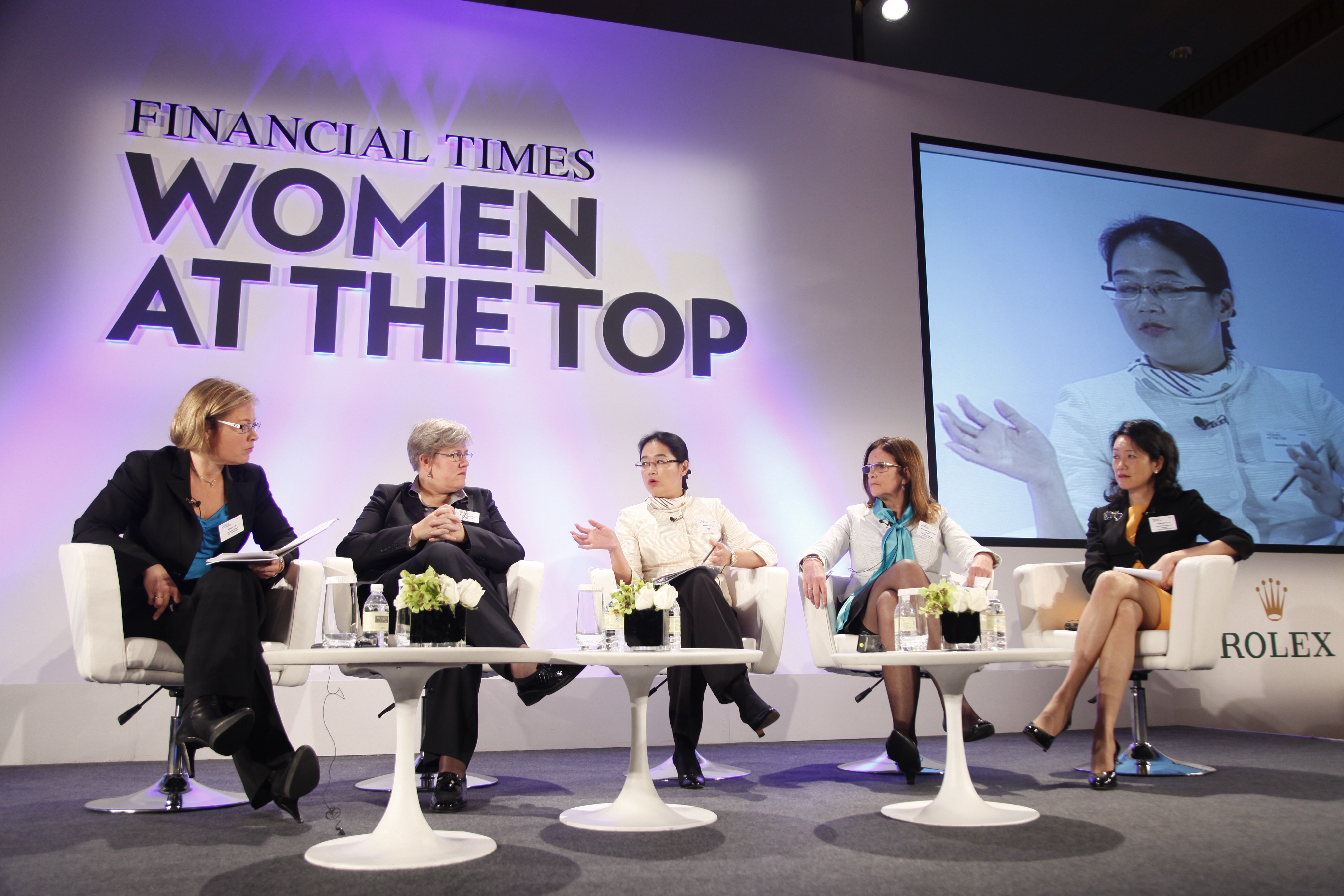 Gillian Tett, US managing editor, Financial Times; Rachel Kyte, Vice President & Network Head, Sustainable Development Bank; Jennifer Li, CFO, Baidu Maria das Gracas Silva Foster, Gas & Energy Director, Petrobas & President, Gaspetro; Teresa Ko, Chairman, China, Freshfields Bruckhaus Deringer